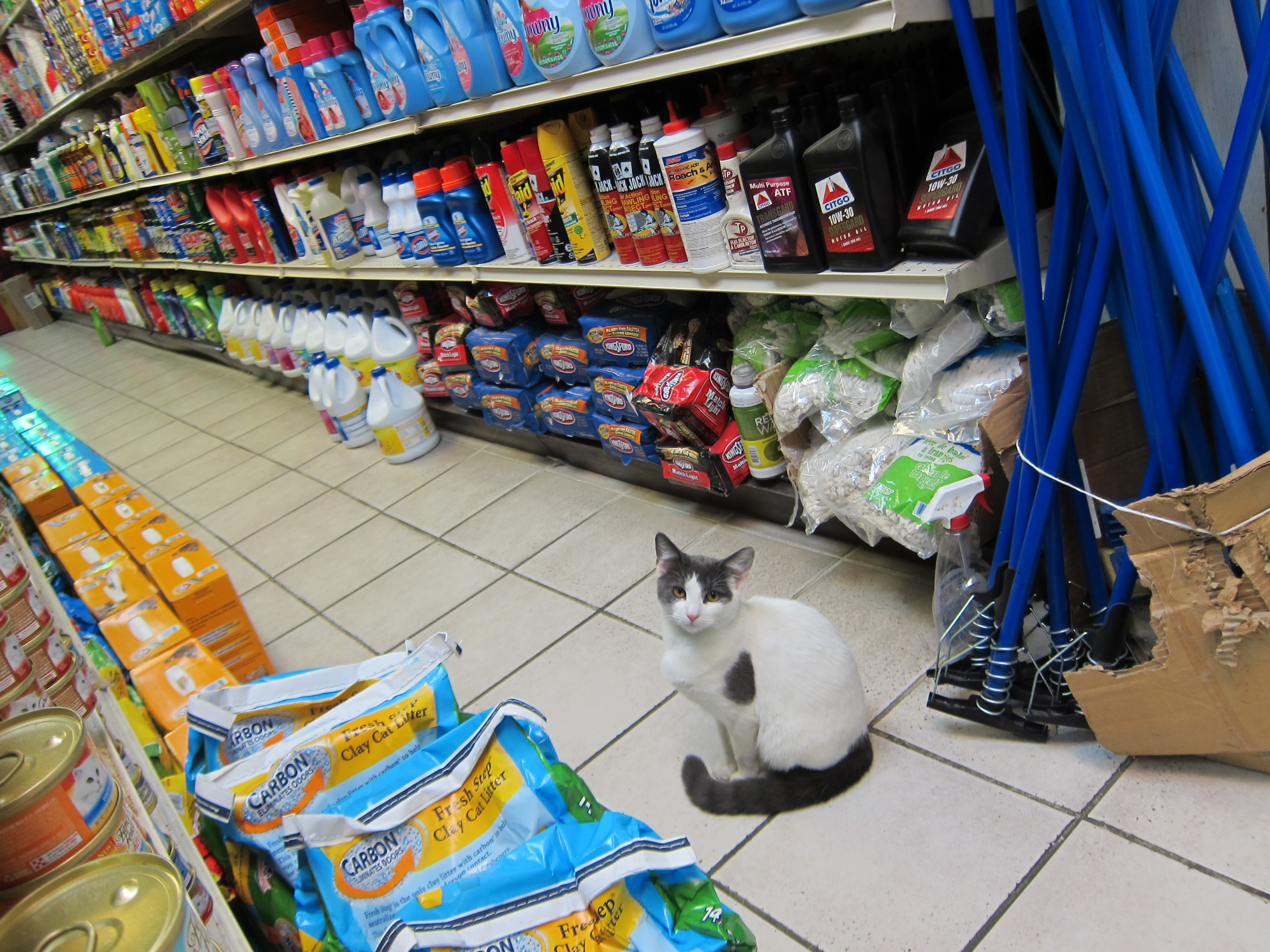 Found this cute kitty in Greenpoint